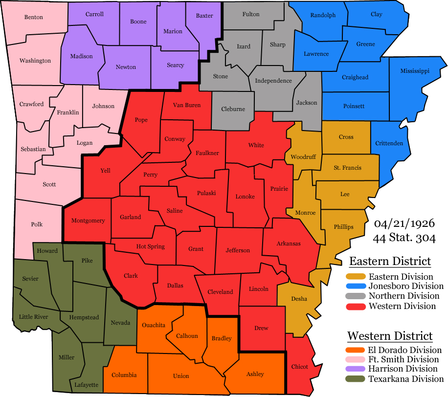 Arkansas districts - Apr 21, 1926